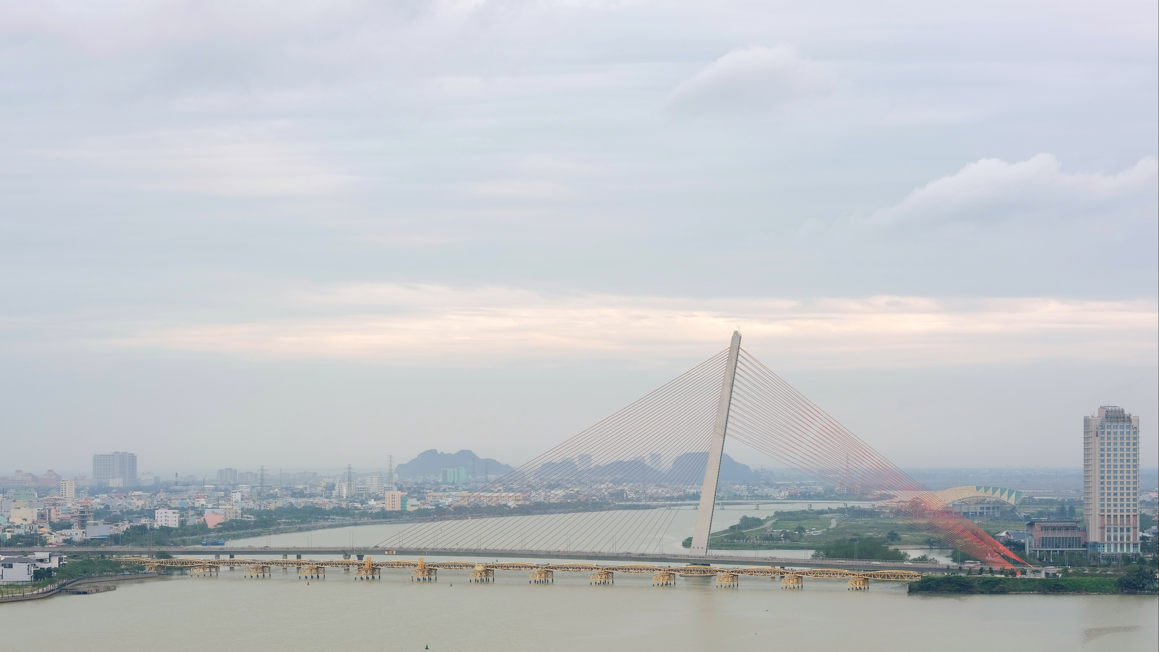 Trần Thị Lý Bridge over Han river, Da Nang, Vietnam.